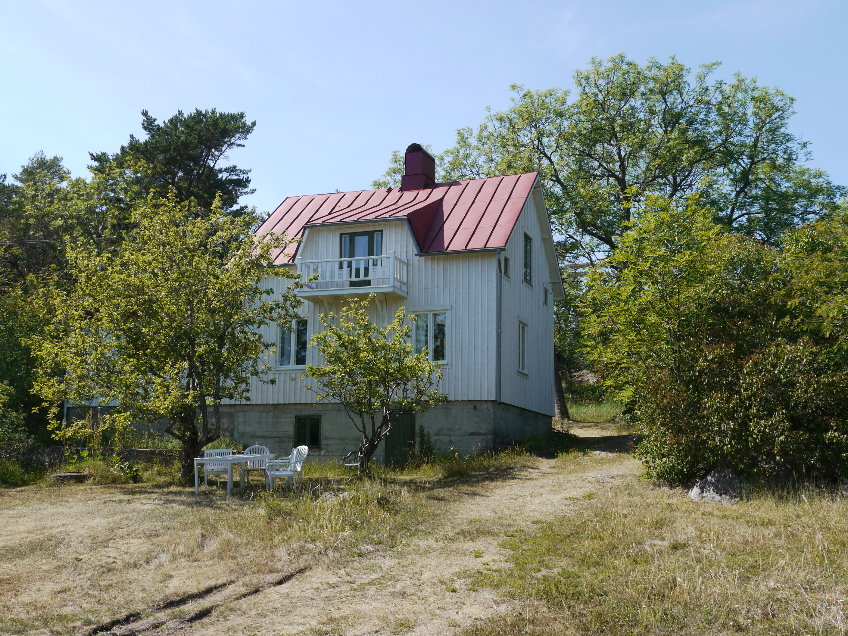 The house of the writer Anni Blomqvist, on Simskäla.